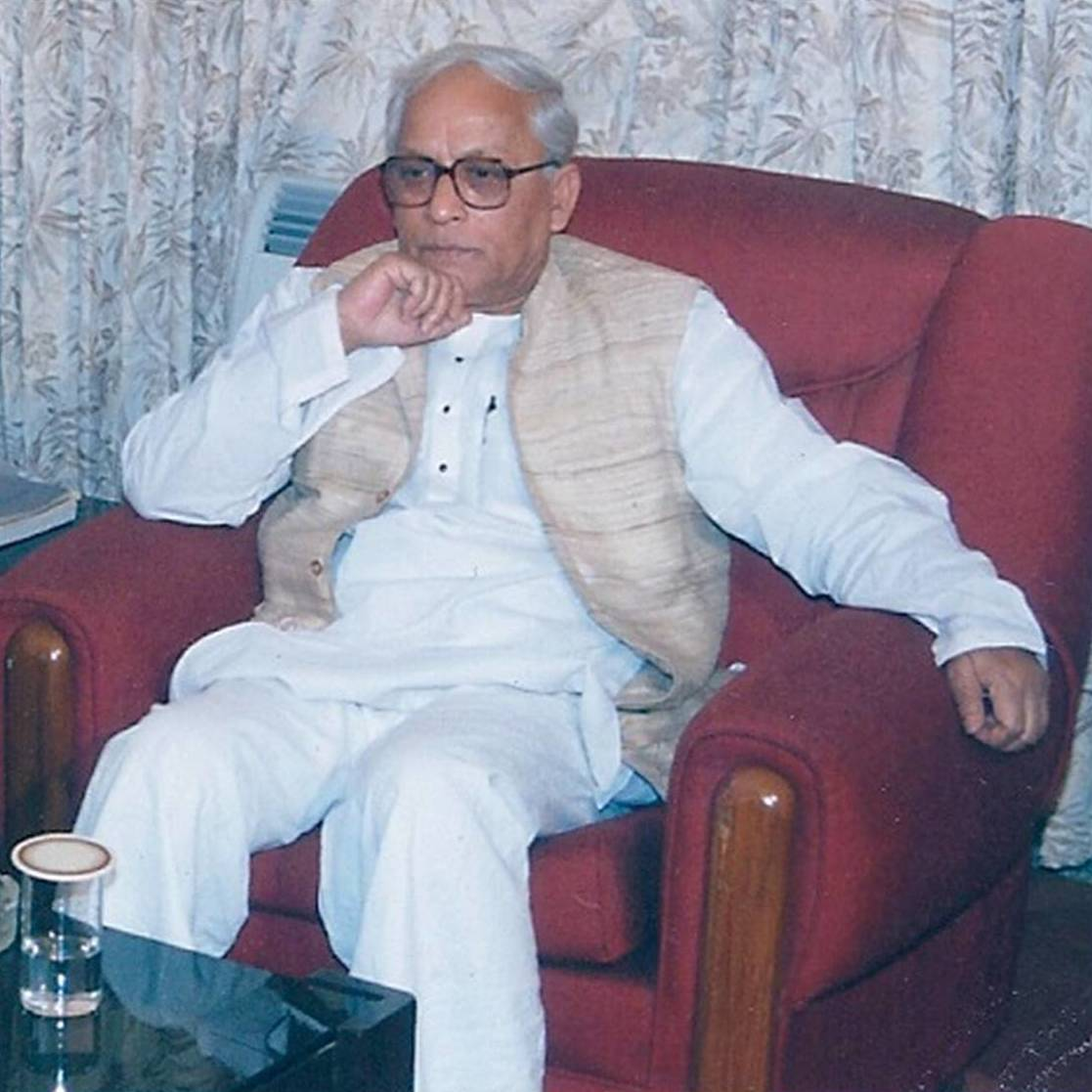 Buddhadeb Bhattacharya at a meeting in Murshidabad.